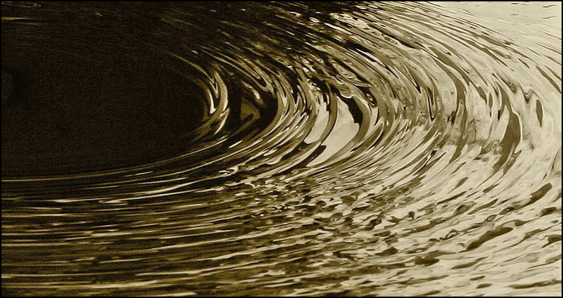 Water